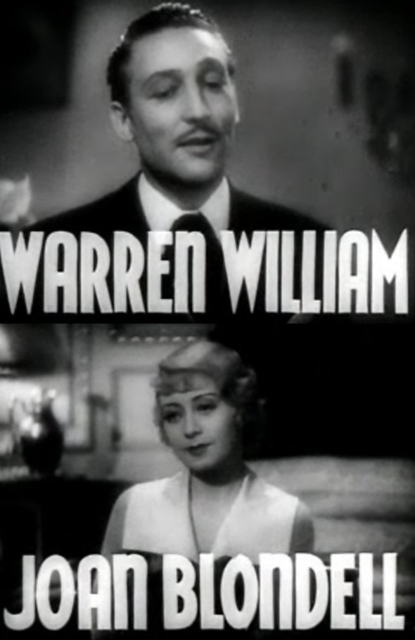 Cropped screenshot of Warren William and Joan Blondell from Goodbye Again.